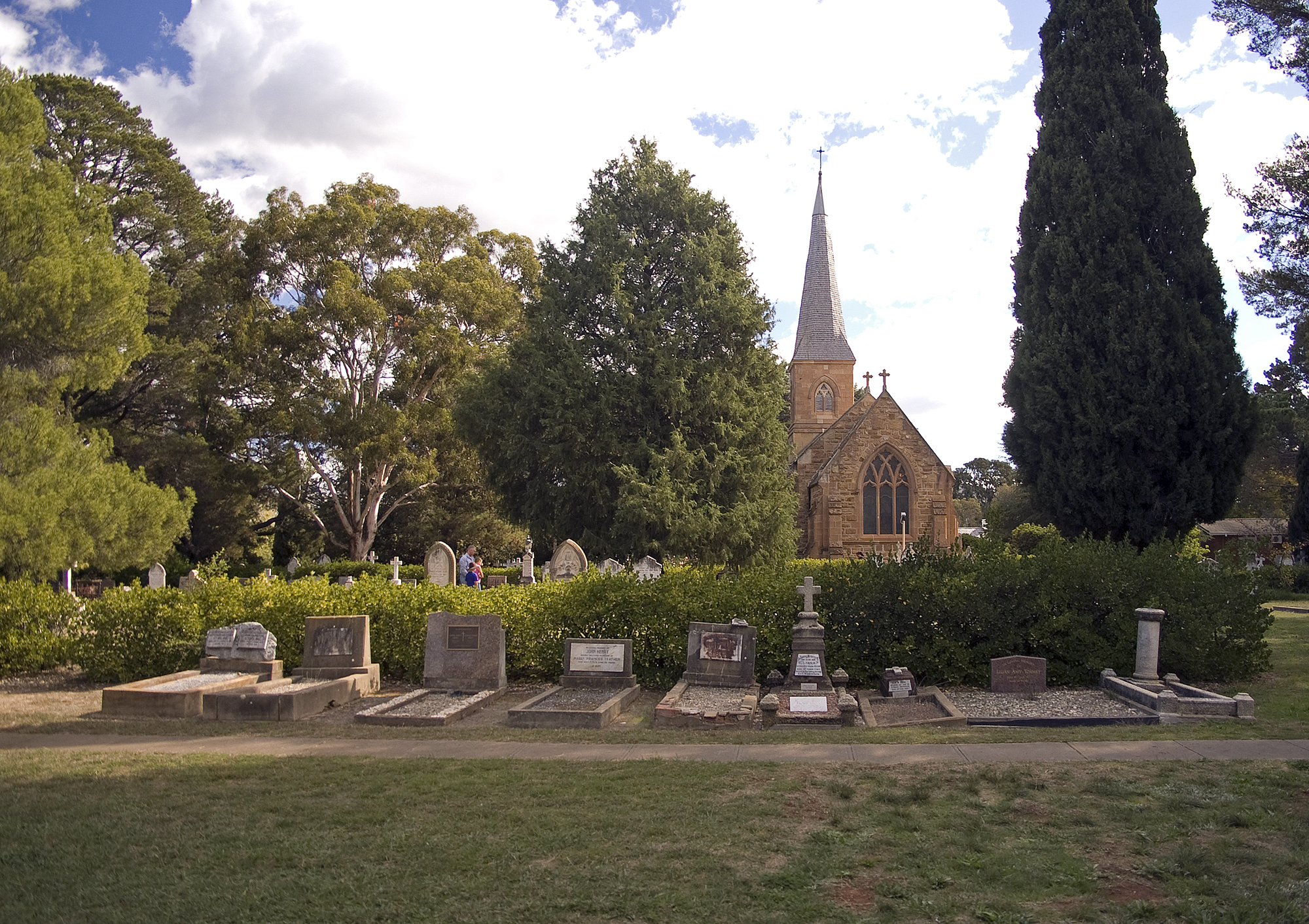 St John the Baptist Church and graves in Reid, Australian Capital Territory.